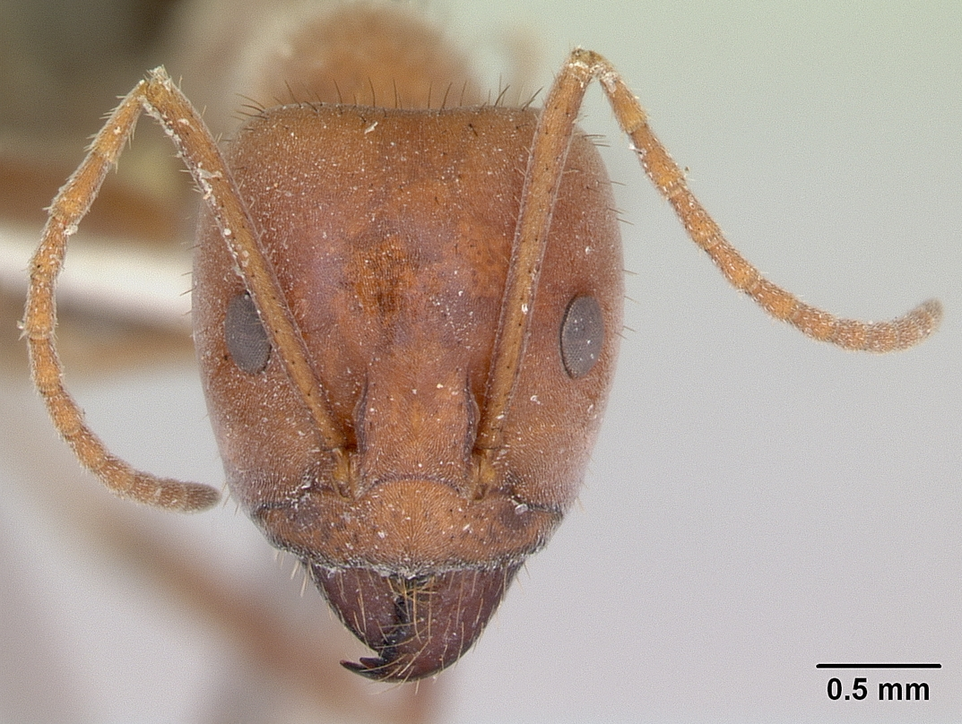 Head view of ant Melophorus anderseni specimen casent0173919.